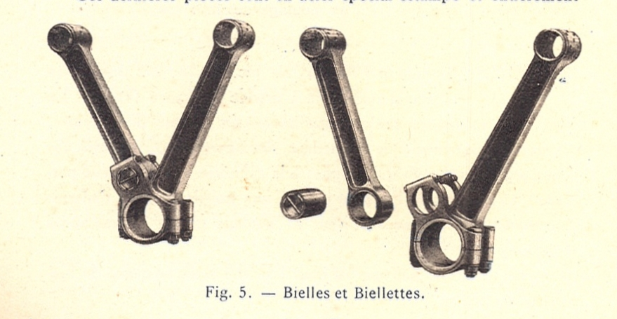 Fig. 5 Connecting rods Manual for the Renault 8 Bd engine See other images from this source in 'Renault 190HP aircraft engine manual'